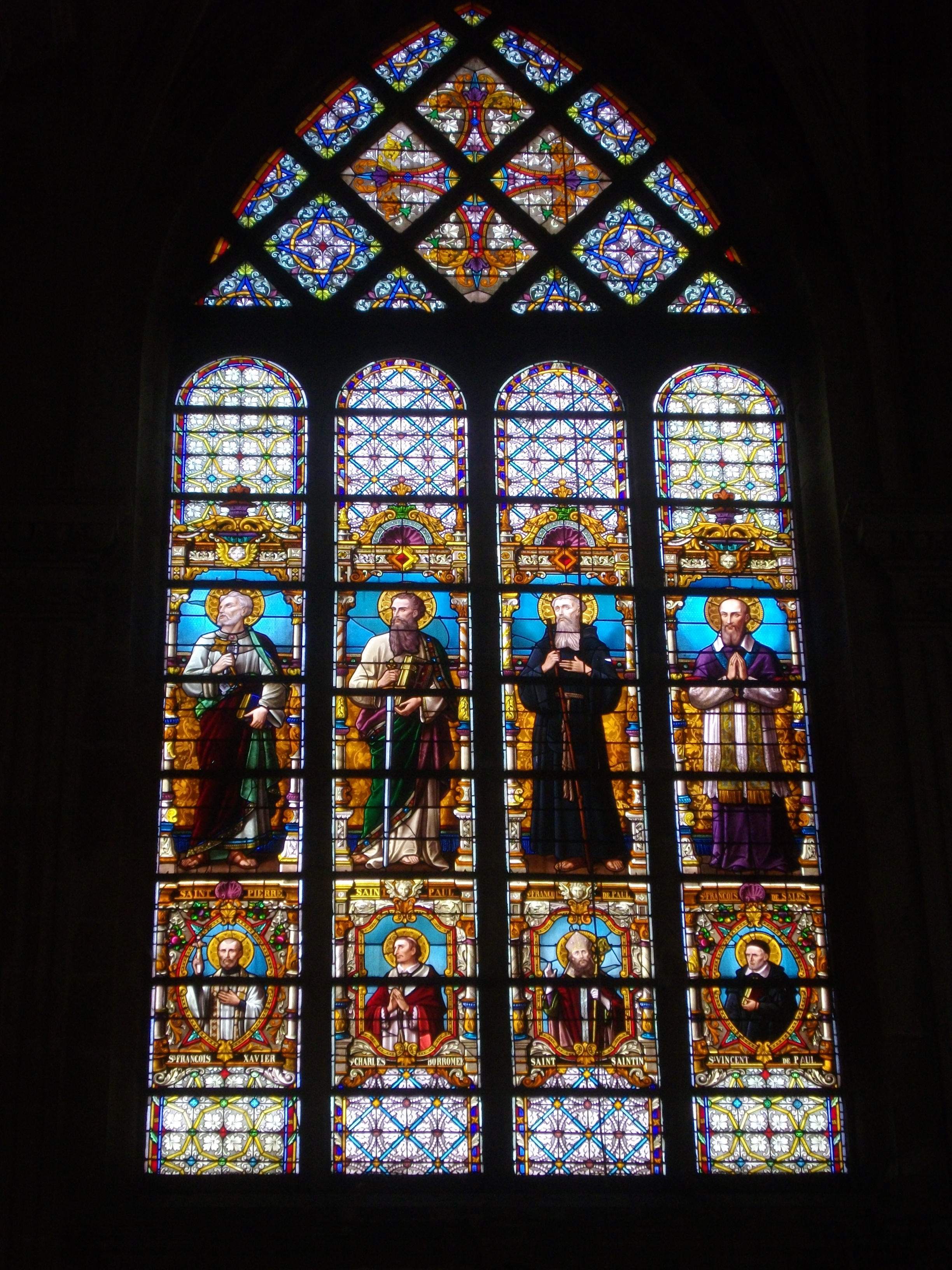 Saint Michael abbey church of Saint-Mihiel (Meuse, France). Stained glass window : Saint Peter, Saint Paul, Saint Francis of Paola, Saint Francis de Sales, Saint Francis Xavier, Saint Charles Borromeo, Saint Saintin, Saint Vincent de Paul .